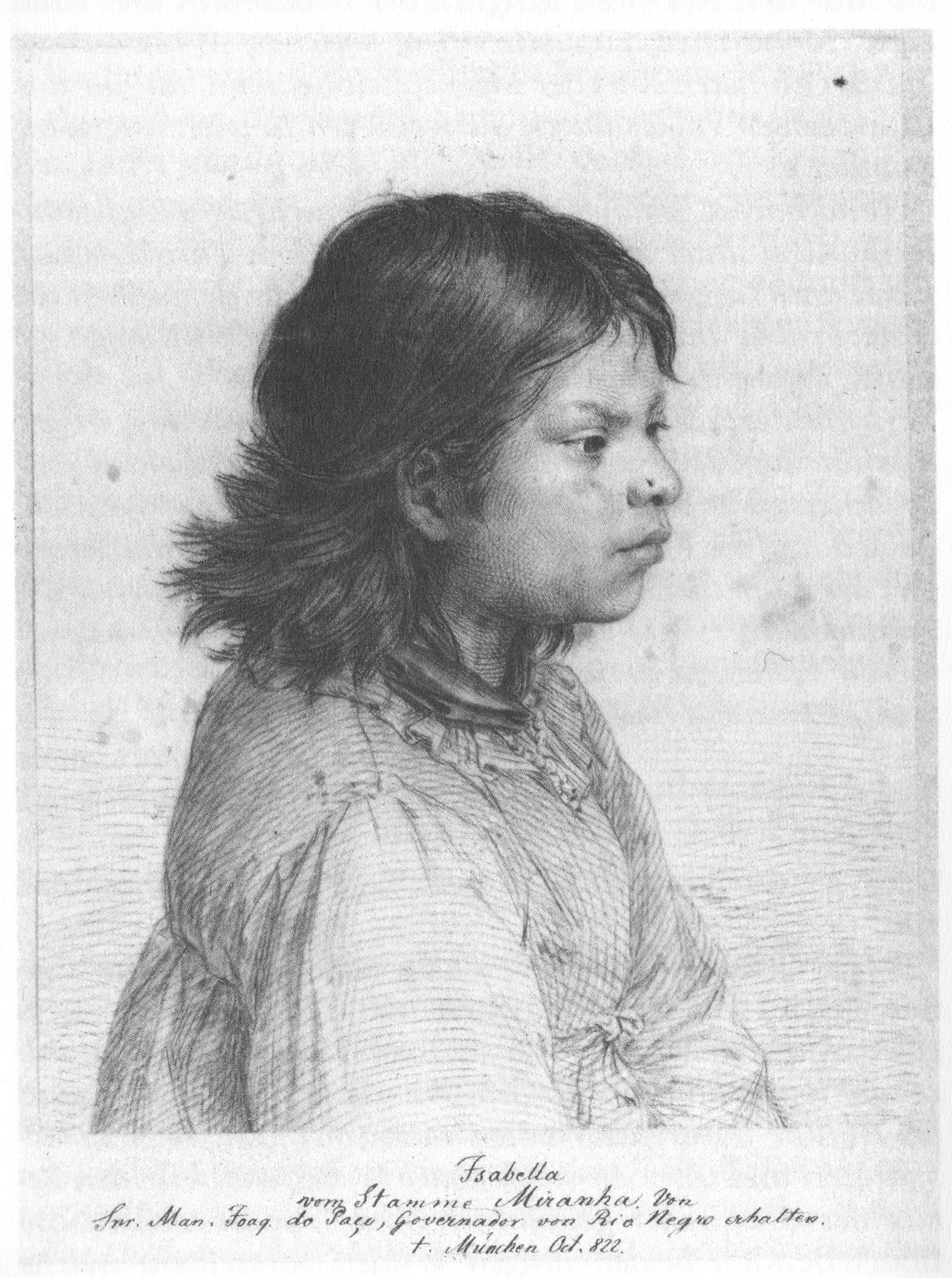 Pencil drawing of Miranha with wrong date of death and wrong origin of the girl hand written by Martius (Bayerische Staatsbibliothek, Martiusiana, I, A,1,7, not signed, probably by P. Lutz, size of original 47.5×38 cm).